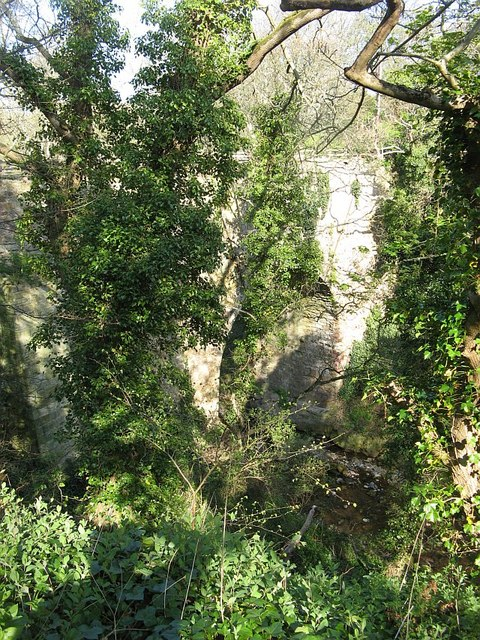 Old bridge, Dunglass The oldest of five bridges crossing the Dunglass Dean between East Lothian and Berwickshire.